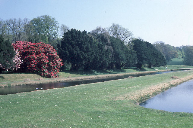 Kilruddery: the canals. A formal seventeenth century garden in the French style. The rhododendron and yews are later plantings